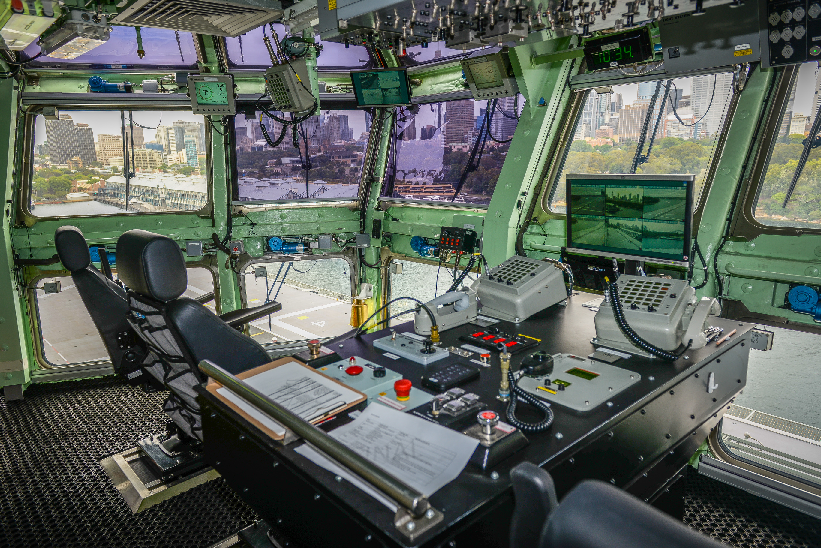 Flight Operations of HMAS Canberra (LHD 02)